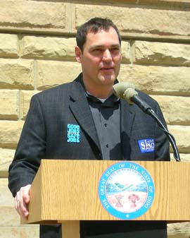 Zack Space is speaking to the Workers Memorial Day rally at the Tuscarawas County Courthouse in New Philadelphia, Ohio.